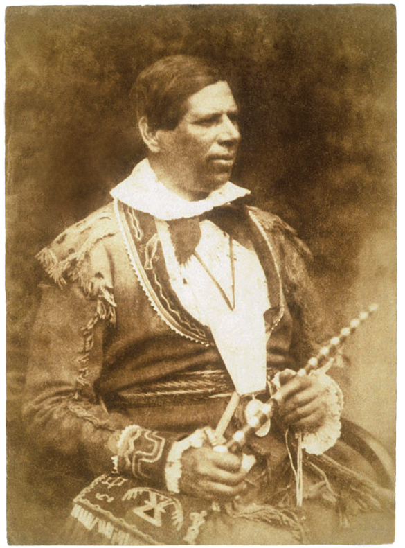 Peter Jones, the Ojibwa Minister, in Scotland 1845